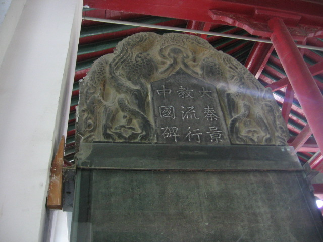 Nestorian Stele (Tang Dynasty, China)